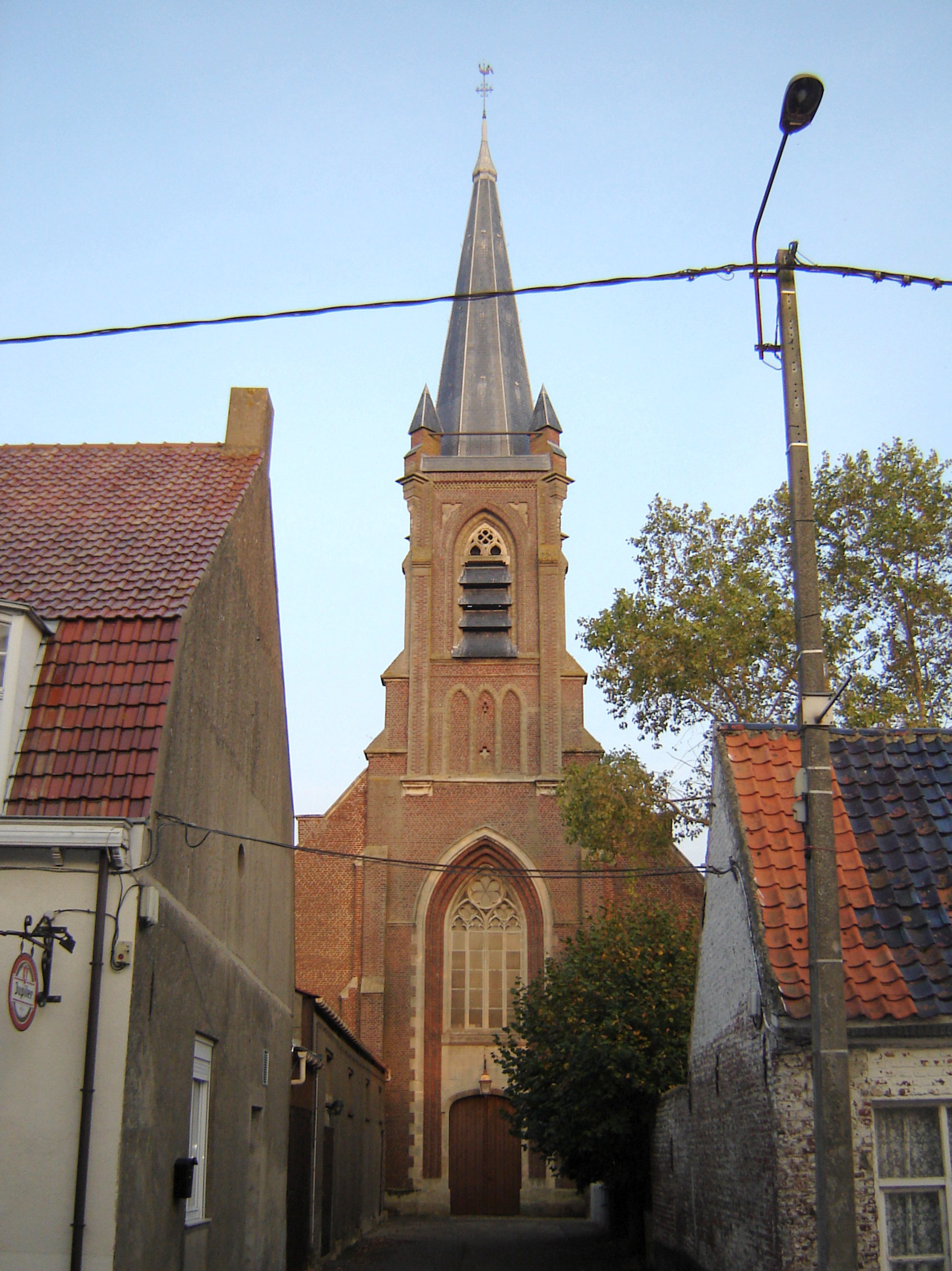 Church of the Immaculate Conception. Located on French territory, but part of the Belgi Abele, Watou, Poperinge, West Flanders, Belgium Abeele, Boeschepe, Nord, Nord-Pas-de-Calais, France